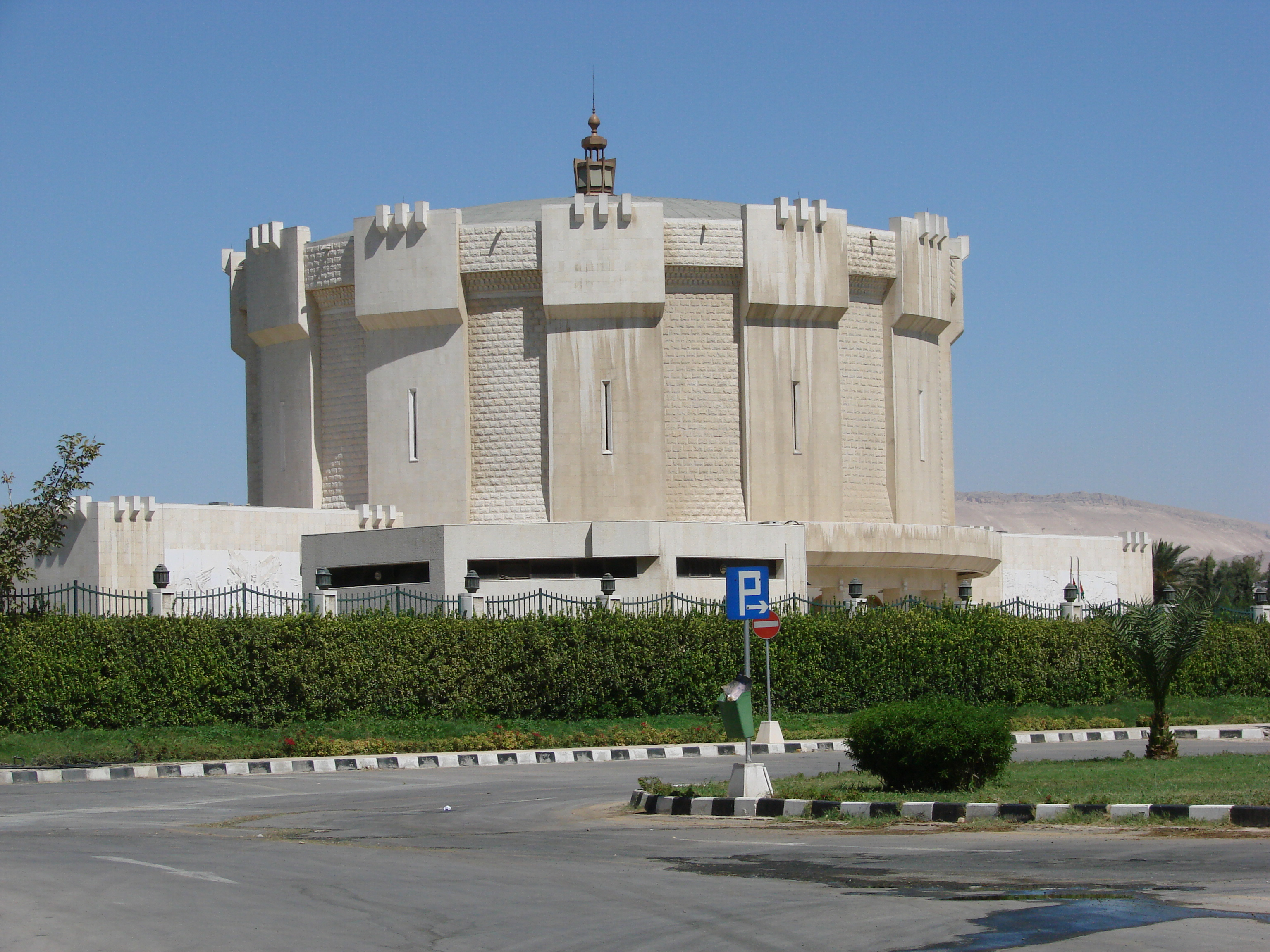 October War Panorama museum in Damascus